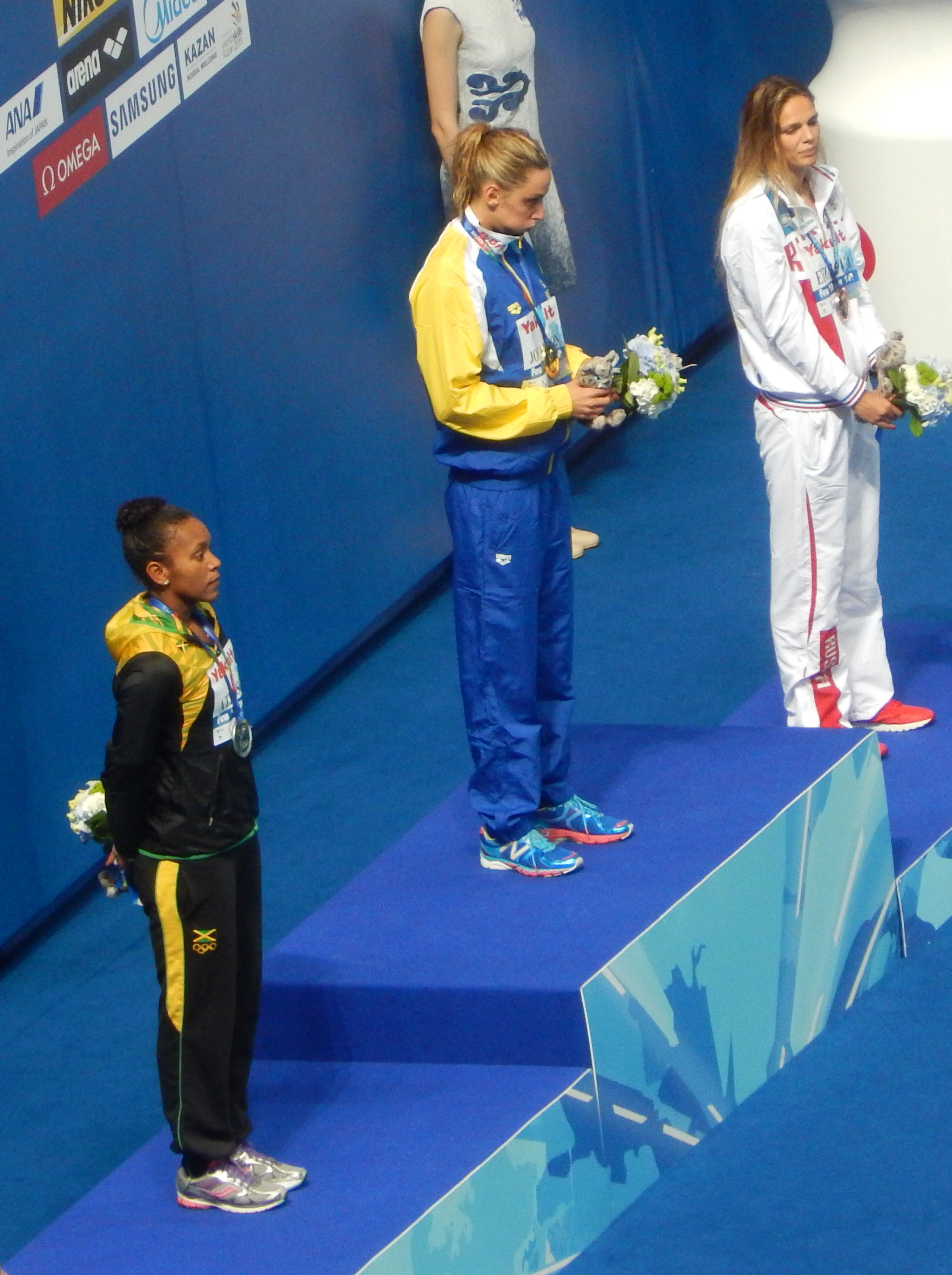 Medallists at the women's 50 metres breaststroke in Kazan 2015